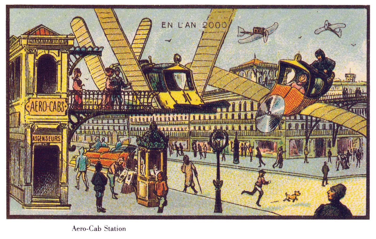 France in 2000 year (XXI century). Air cab station. France, paper card by Jean-Marc Côté.